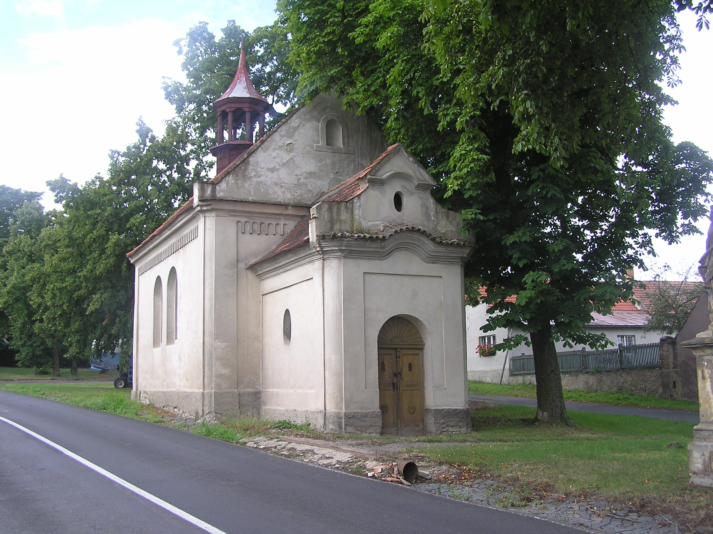 Chapel in Senkov